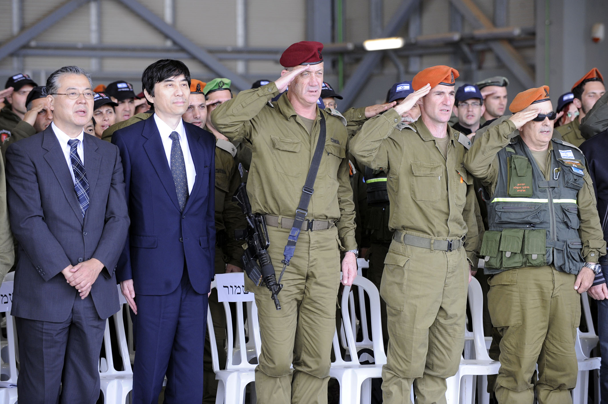 April 12, 2011 Today, the IDF aid delegation to Japan landed at the Nevatim air force base and was received with a ceremony headed by the Chief of the General Staff, Lt. Gen. Benny Gantz, the GOC Home Front Command, Maj. Gen. Yair Golan, and the IDF Surgeon General, Brig. Gen. Dr. Nachman Ash. Pictured (l-r): Japanese official, Ambassador of Japan in Israel, Mr. Haruhisa Takeuchi, IDF Chief of Staff, Lt. Gen. Benny Gantz, GOC Home Front Command, Maj. Gen. Yair Golan, Delegation Commander, Brig. Gen, Shalom Ben-Arieh. היום (ג') נחתה משלחת הסיוע של צה"ל ליפן בבסיס חיל האוויר בנבטים והתקבלה בטקס במעמד ראש המטה הכללי, רב אלוף בני גנץ, מפקד פיקוד העורף, אלוף יאיר גולן וקצין הרפואה הראשי, תת אלוף ד"ר נחמן אש.